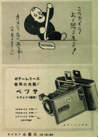 An advertisement in a Japanese magazine using Kyowago in 1937